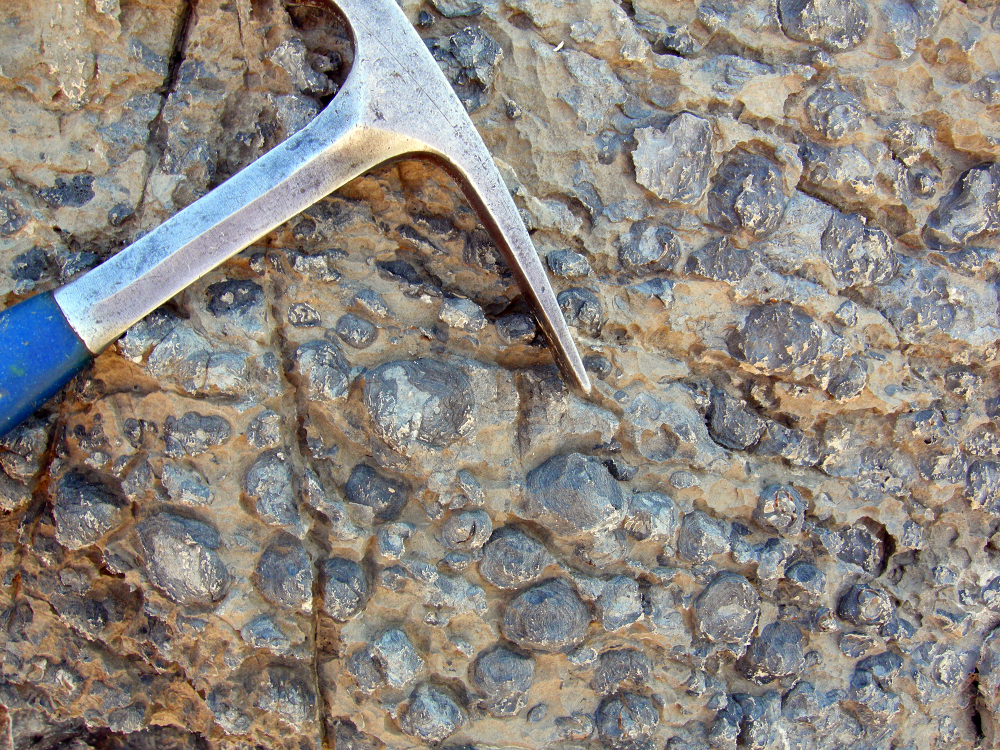 Oncolites in the Alamo impact breccia (Guilmette Formation, Late Devonian, Frasnian) near Hancock Summit, Pahranagat Range, Nevada.